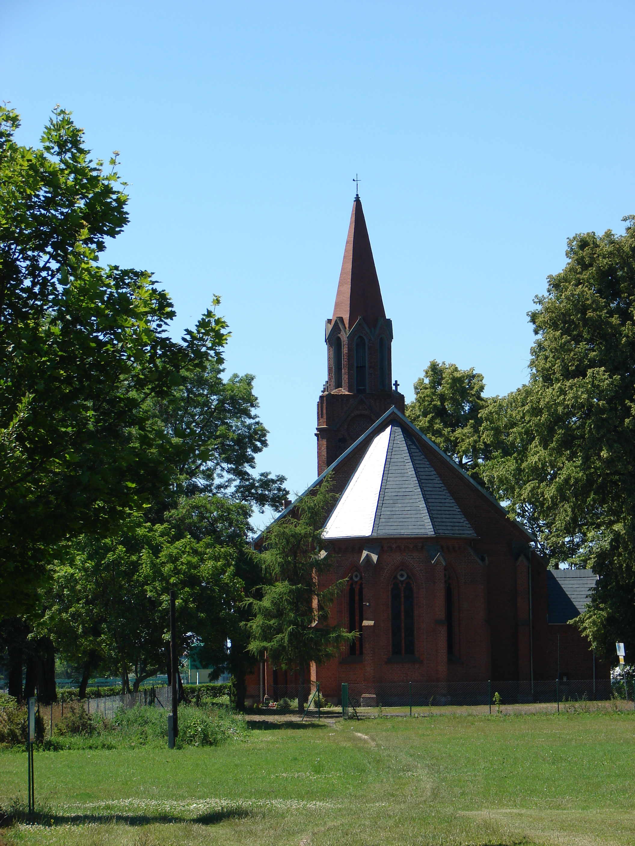 Kawki, Gmina Bobrowo, Parish church of St. Anthony. Built 1867.